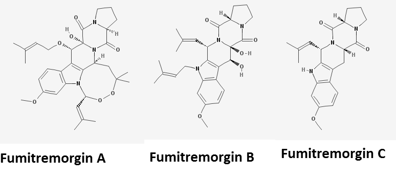 Fumitremorgin A-C